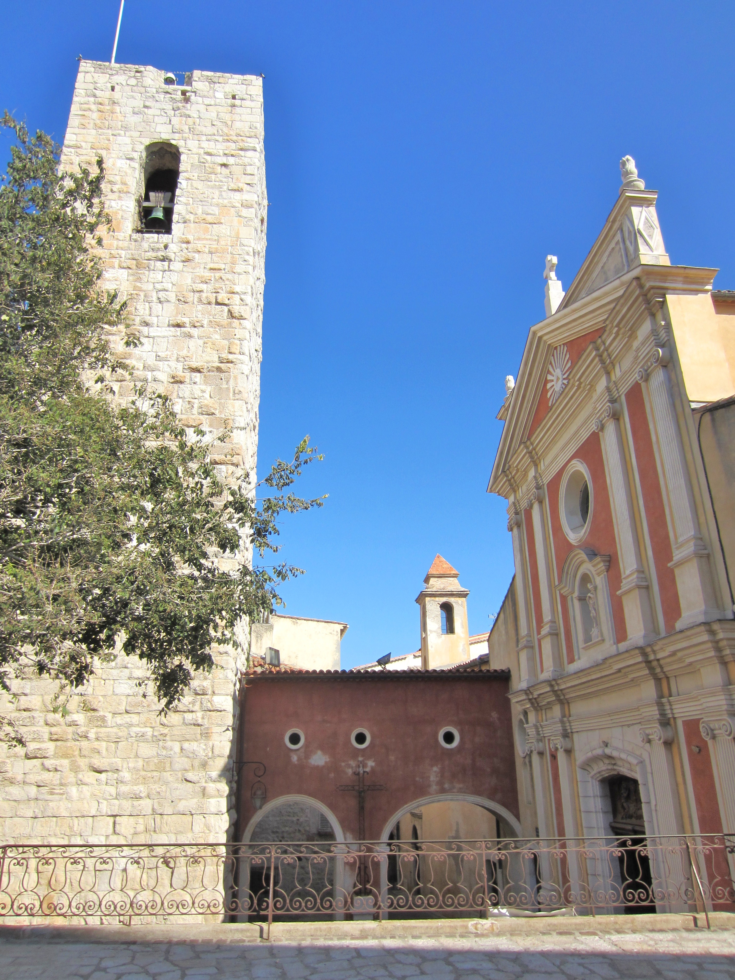 Description st esprit et campanile cathedrale Antibes Date13 December 2011Sourcemon appareil photoAuthorAimelaimePermission (Reusing this file) st esprit et campanile cathedrale Antibes